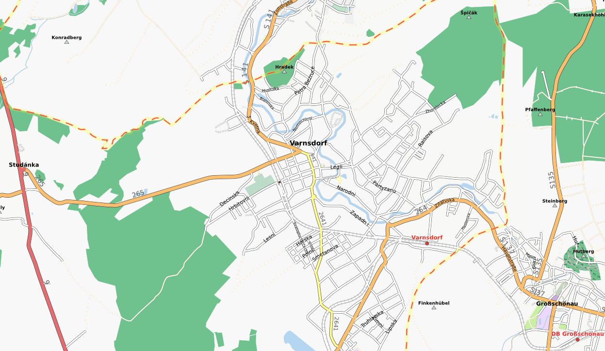 Map of Varnsdorf Česky: Mapa Varnsdorfu